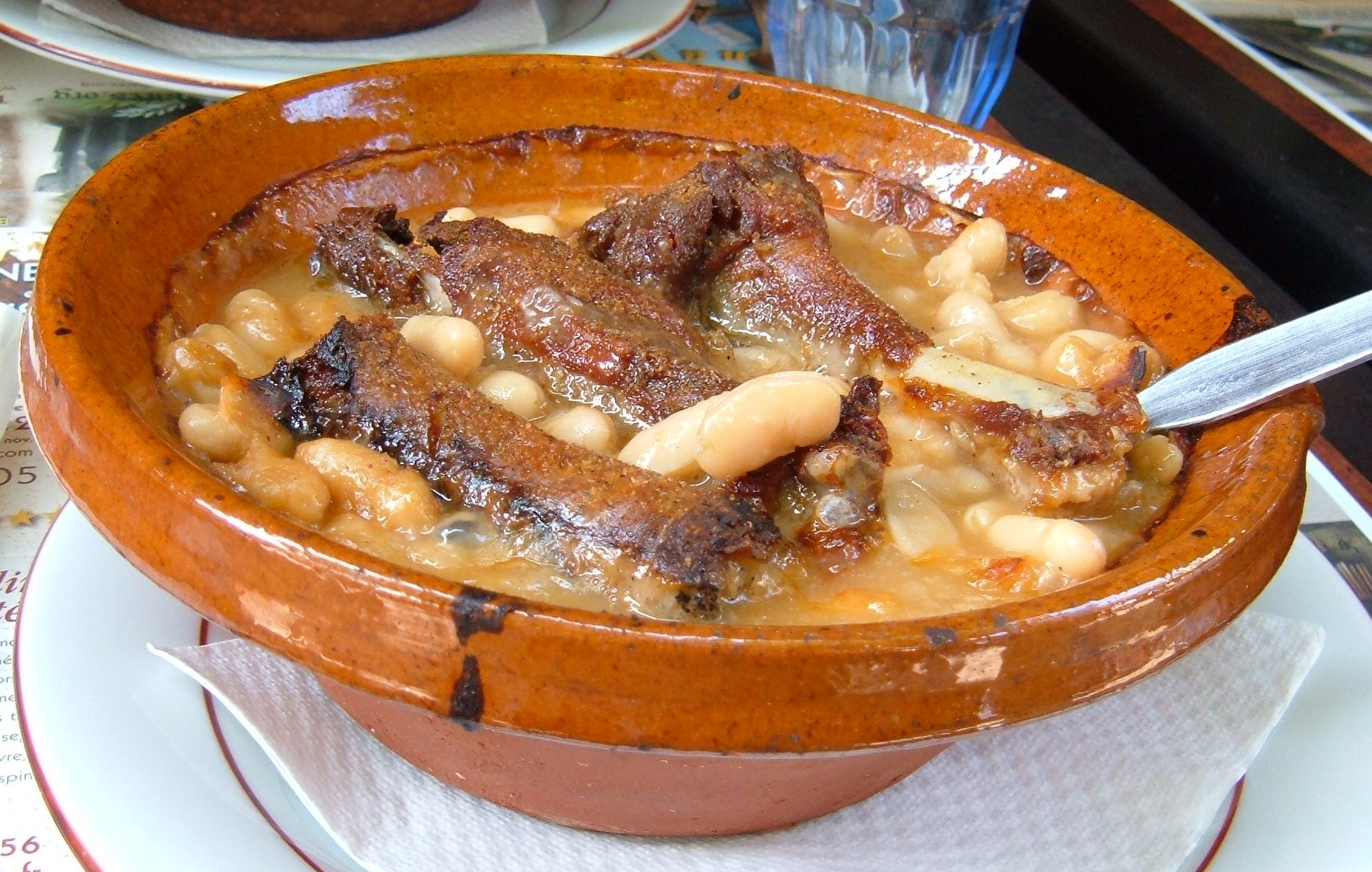 A bowl of cassoulet that I had in Carcassonne, France.